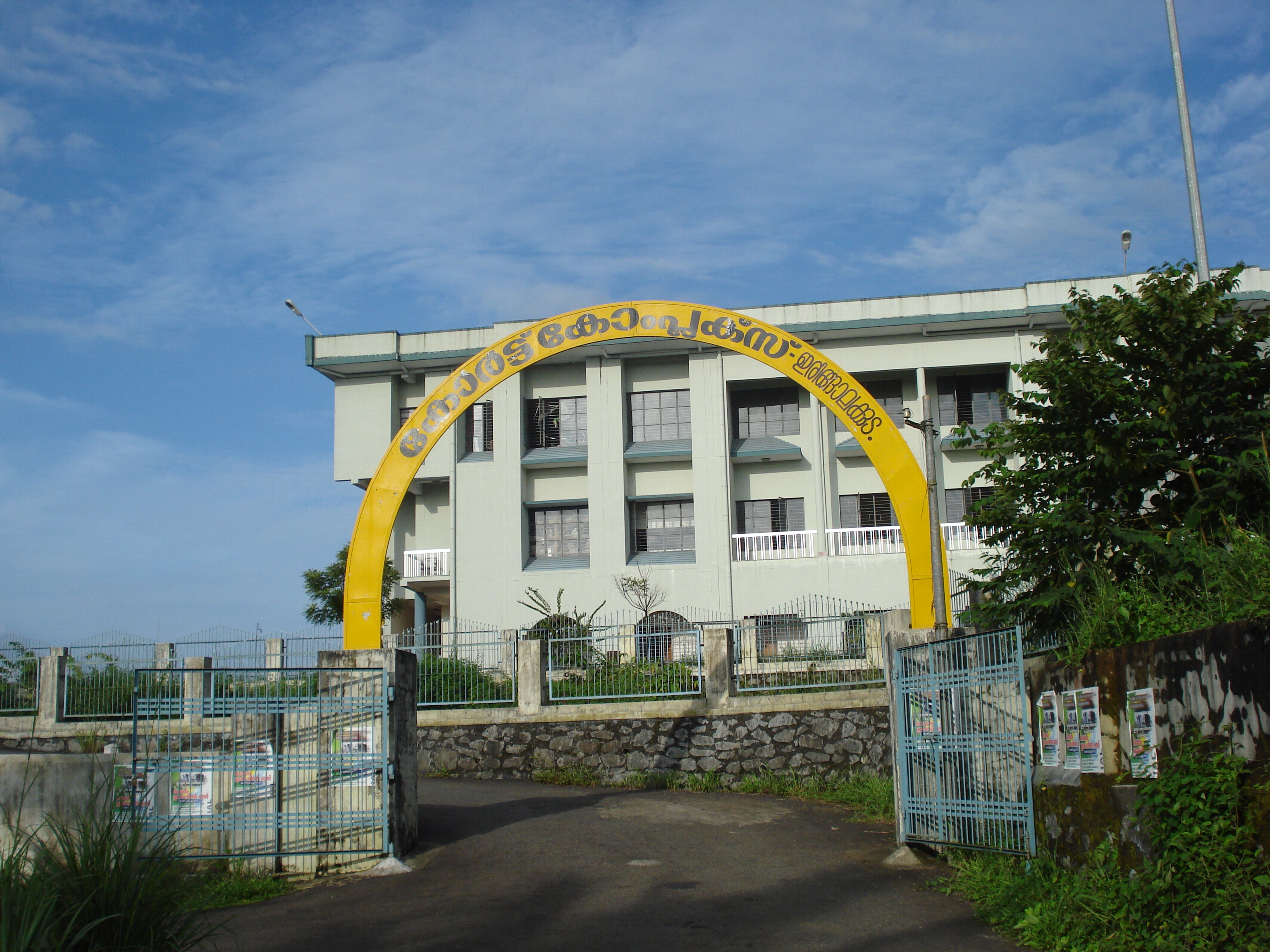 Court complex, Irinjalakuda, Kerala